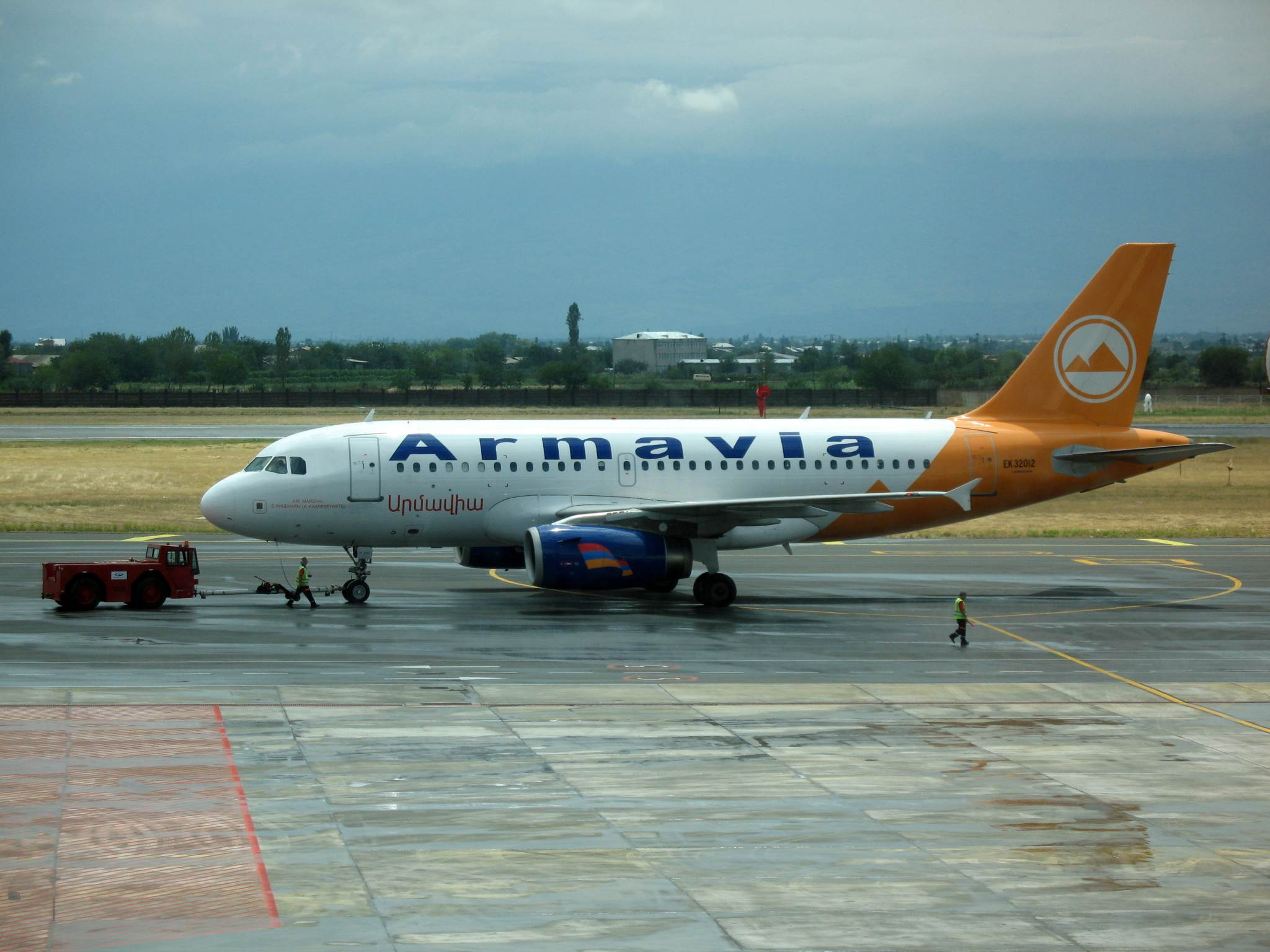 Armavia A319 push back at Zvartnots